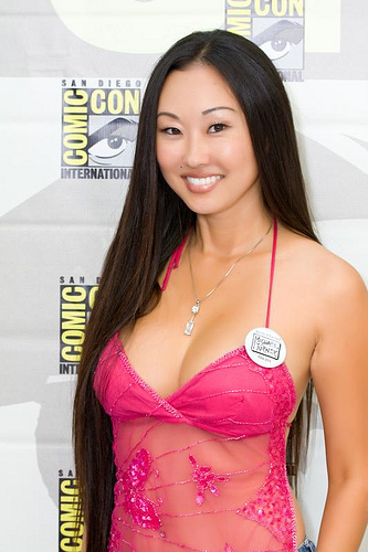 Candace Kita at the 2009 San Diego Comic Con. Taken at the San Diego Convention Center.